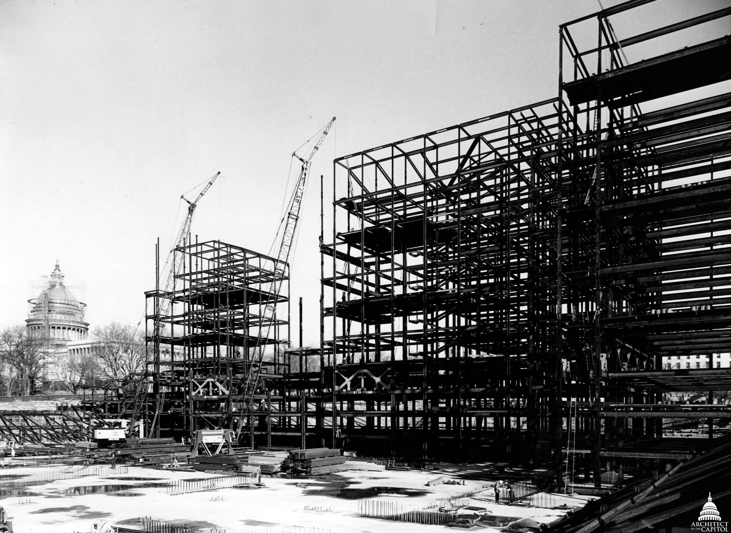 Rayburn House Office building under construction c. 1960. Restoration of the Capitol Dome can also be seen ongoing in the background. The Rayburn Building opened February 23, 1965.